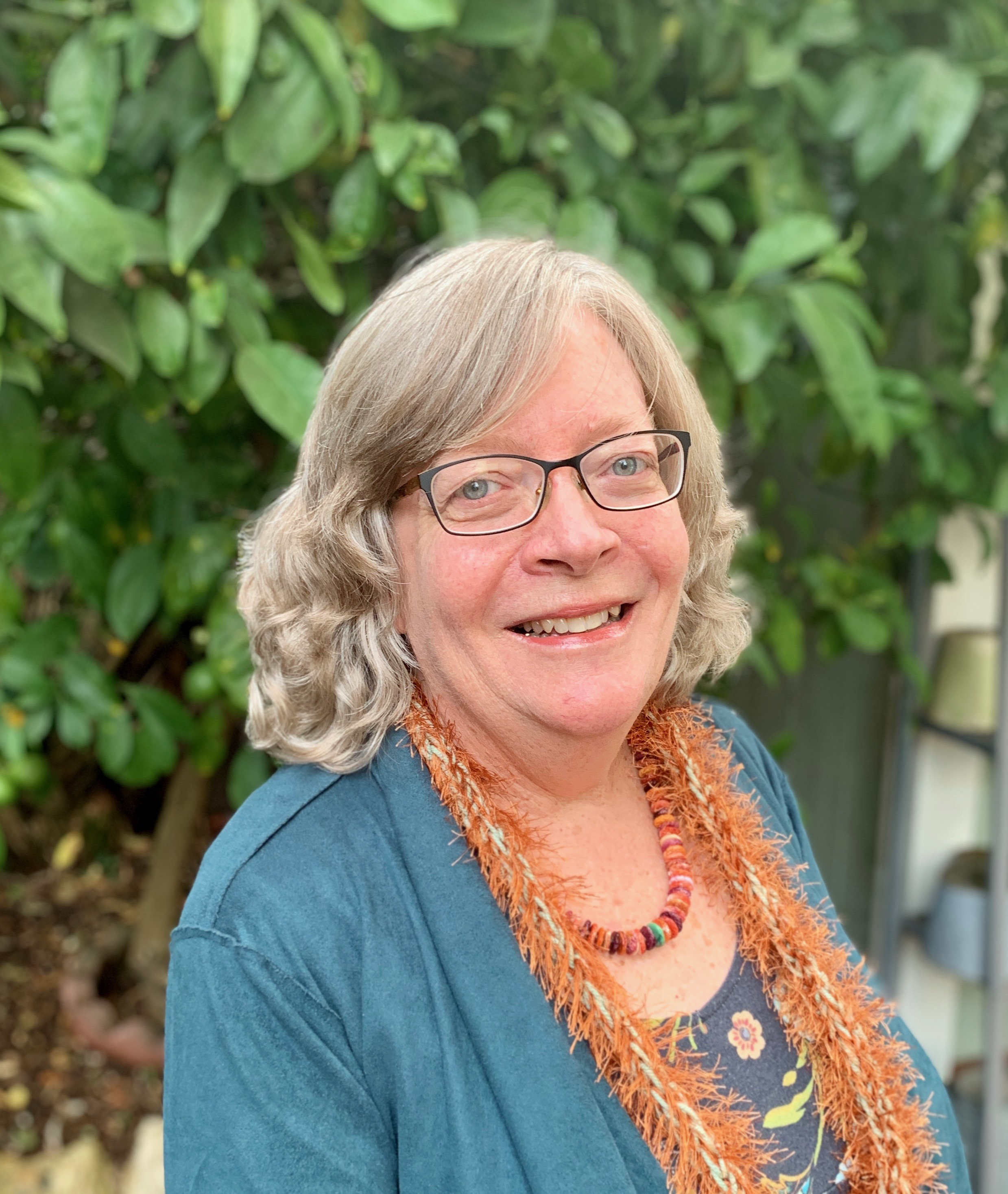 Headshot of Anne Villeneuve, scientist